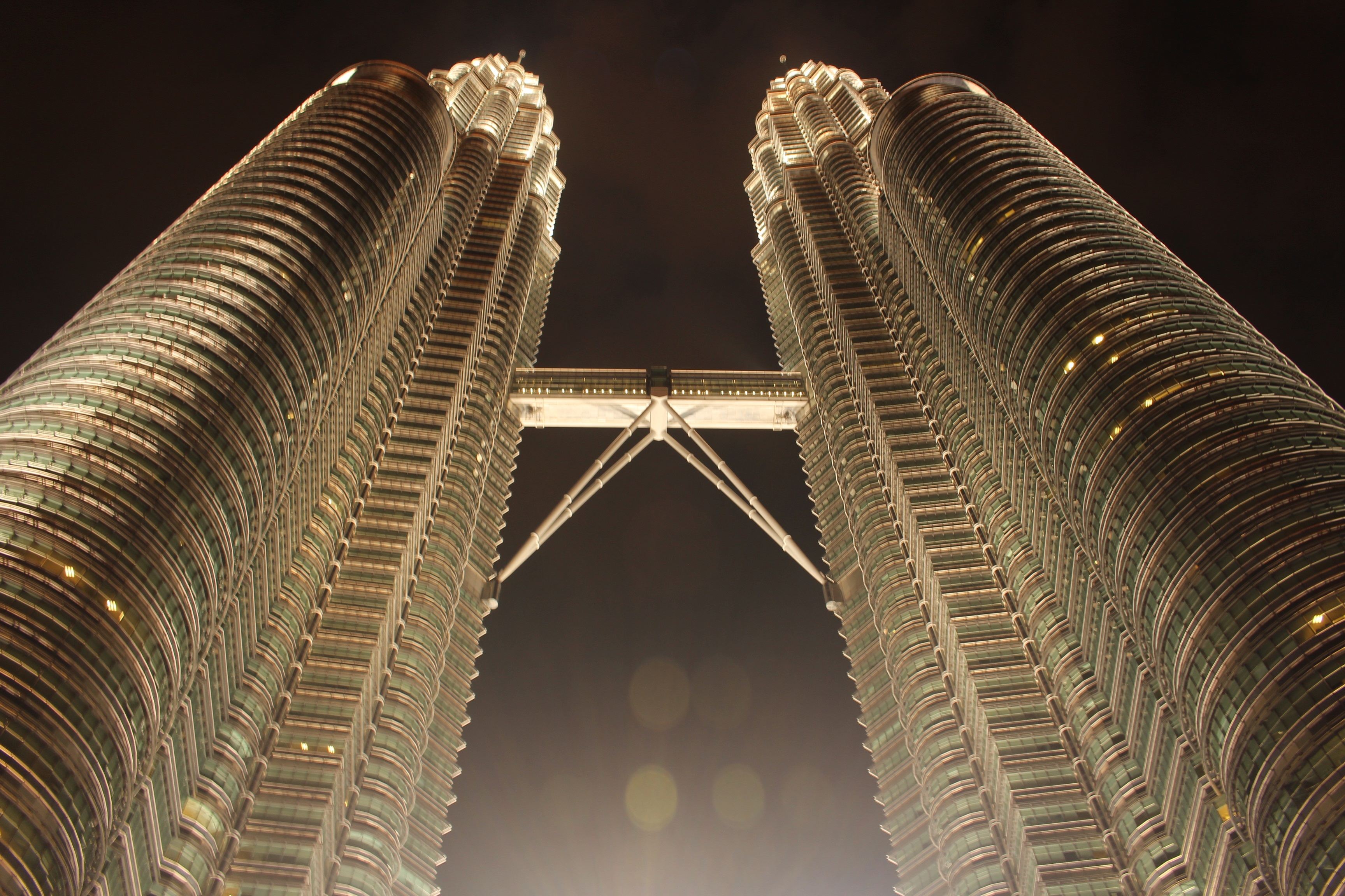 Night View of Petronas Twin Tower